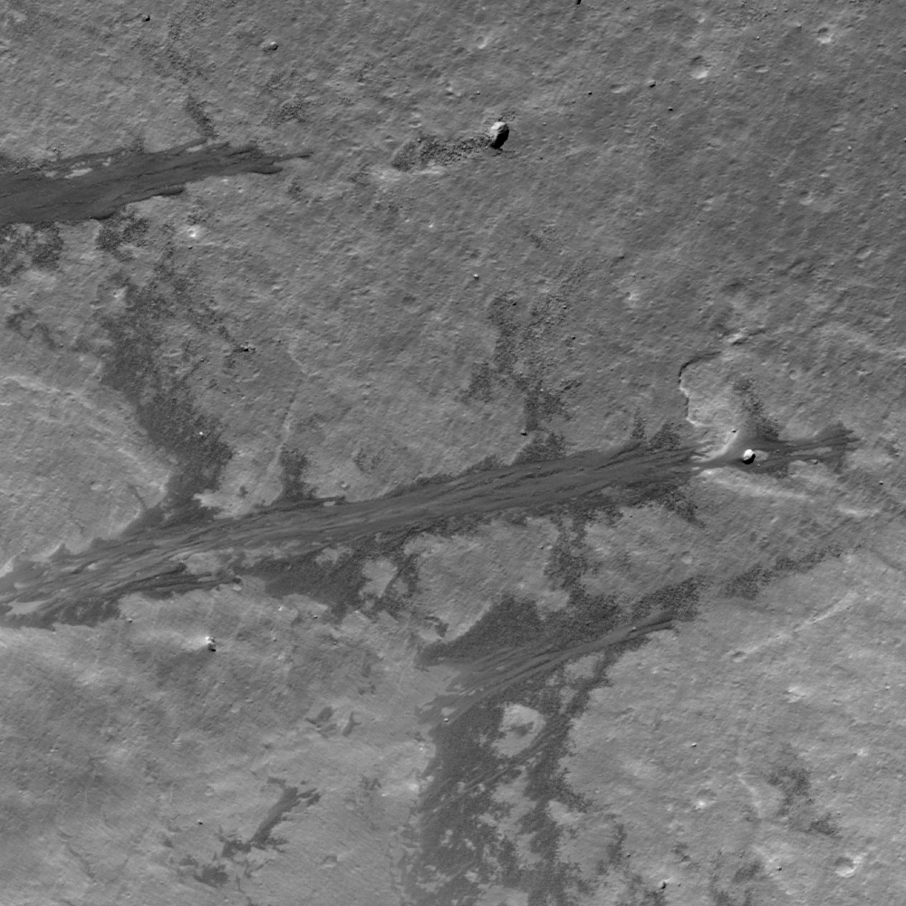 A granular debris flow on the wall of Stevinus A (downhill to the right). A 7 m diameter boulder impedes the progress of the flow, which bifurcates and reconnects about 10 m downhill. LROC NAC M154893929R, image is 500 m across [NASA/GSFC/Arizona State University].